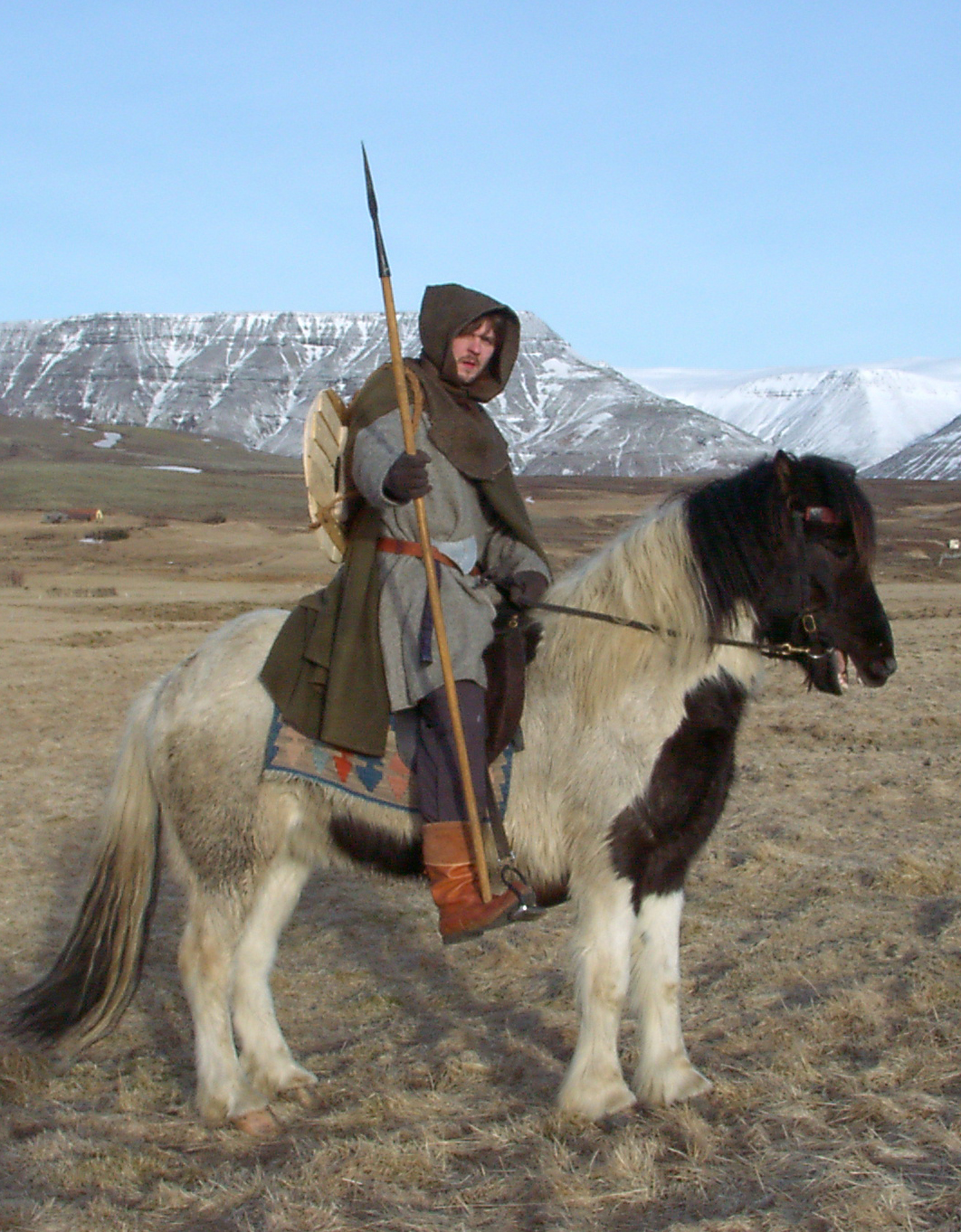 TOSHIBA Exif JPEG